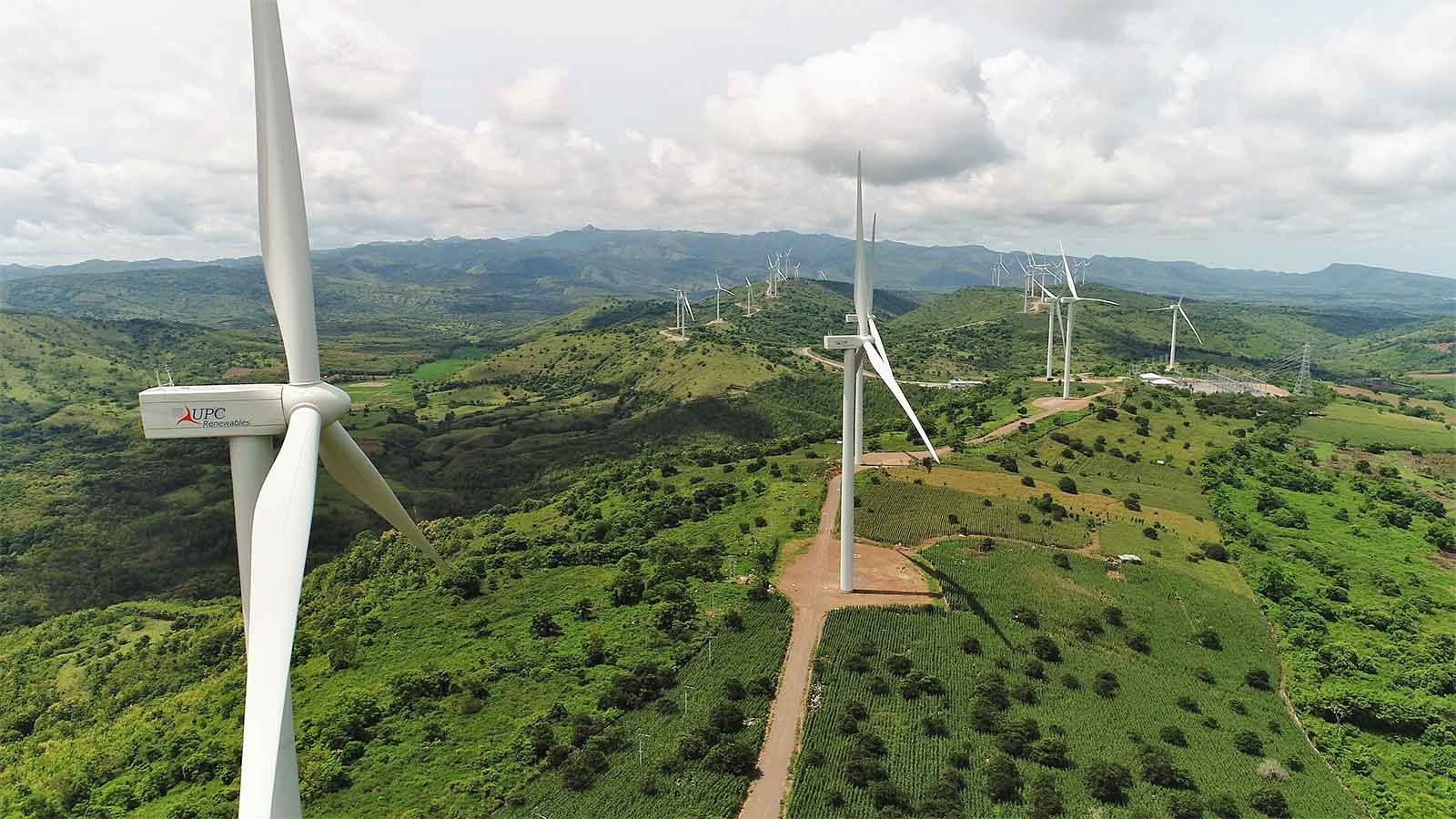 USAID is assisting PLN in integrating renewable energy into Indonesia's power system, including the first large-scale Sidrap Wind Farm in Indonesia, which has a capacity of 75 megawatts. USAID worked with PLN to analyze the impact of wind power in its system leading to an agreement with UPC Renewables to develop the Sidrap Wind Farm.